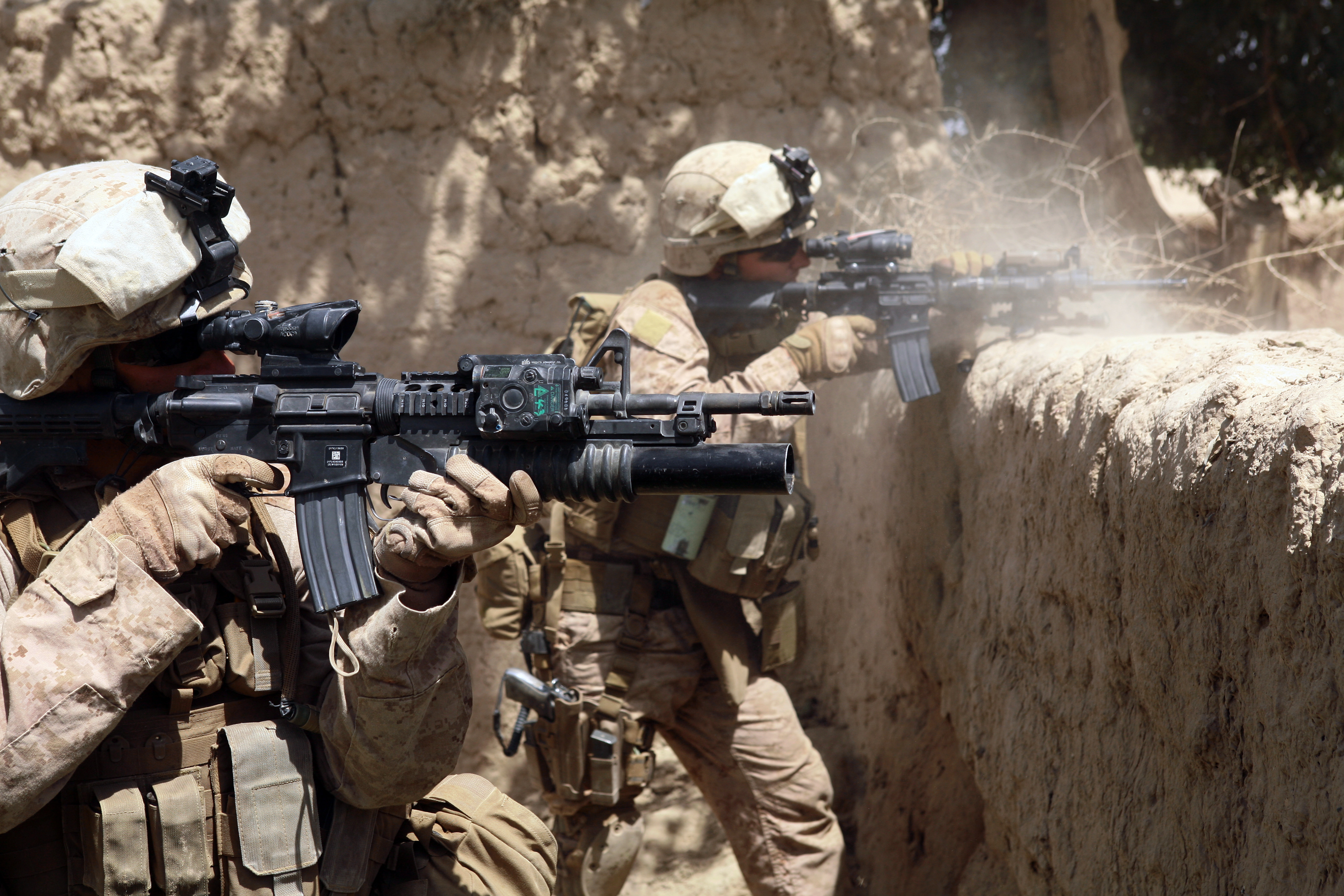 U.S. Marine Corps Sergeant Ryan Pettit (left) (4th Civil Affairs Group) and Corporal Matthew Miller with 2nd Battalion, 8th Marine Regiment fire their service rifles during an operation in the Helmand Province of Afghanistan on July 3, 2009. The Marines are part of the ground combat element of Regiment Combat Team 3, 2nd Marine Expeditionary Brigade.